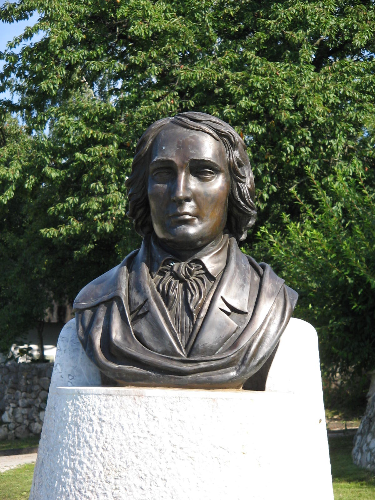 Statue of France Prešeren. A bronze replica of the first sculpture of Prešeren, created in 1865 by Franc Ksaver Zajec.